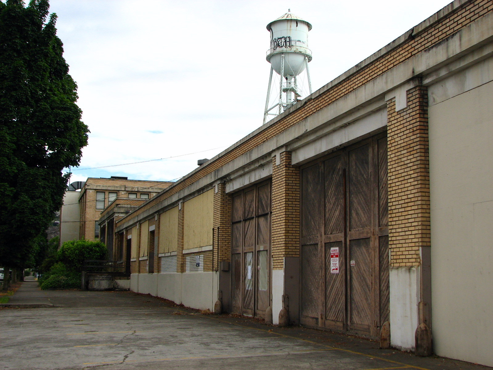 The historic American Can Company Complex (built 1921), located at 2127 Northwest 26th Avenue in Portland, Oregon, United States, is listed on the US National Register of Historic Places (NRHP).